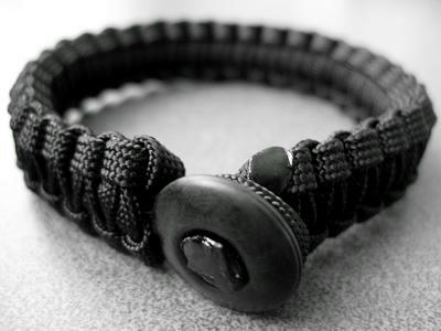 Typical 2A(225#) Cord Bracelet